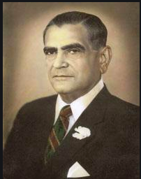 Pas18 president